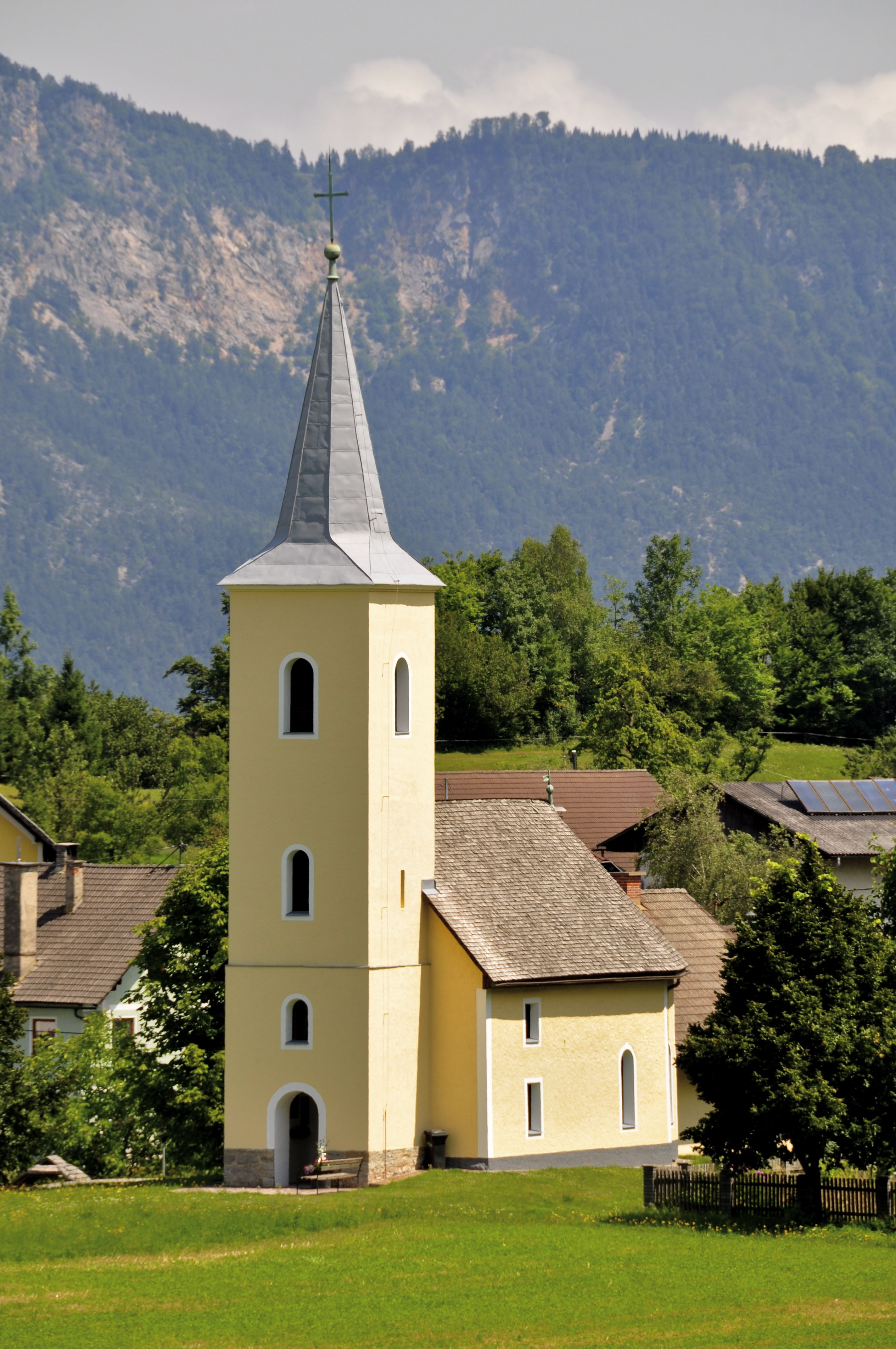 Lutheran parish church A. B. in Agoritschach, municipality Arnoldstein, district Villach Land, Carinthia / Austria / EU